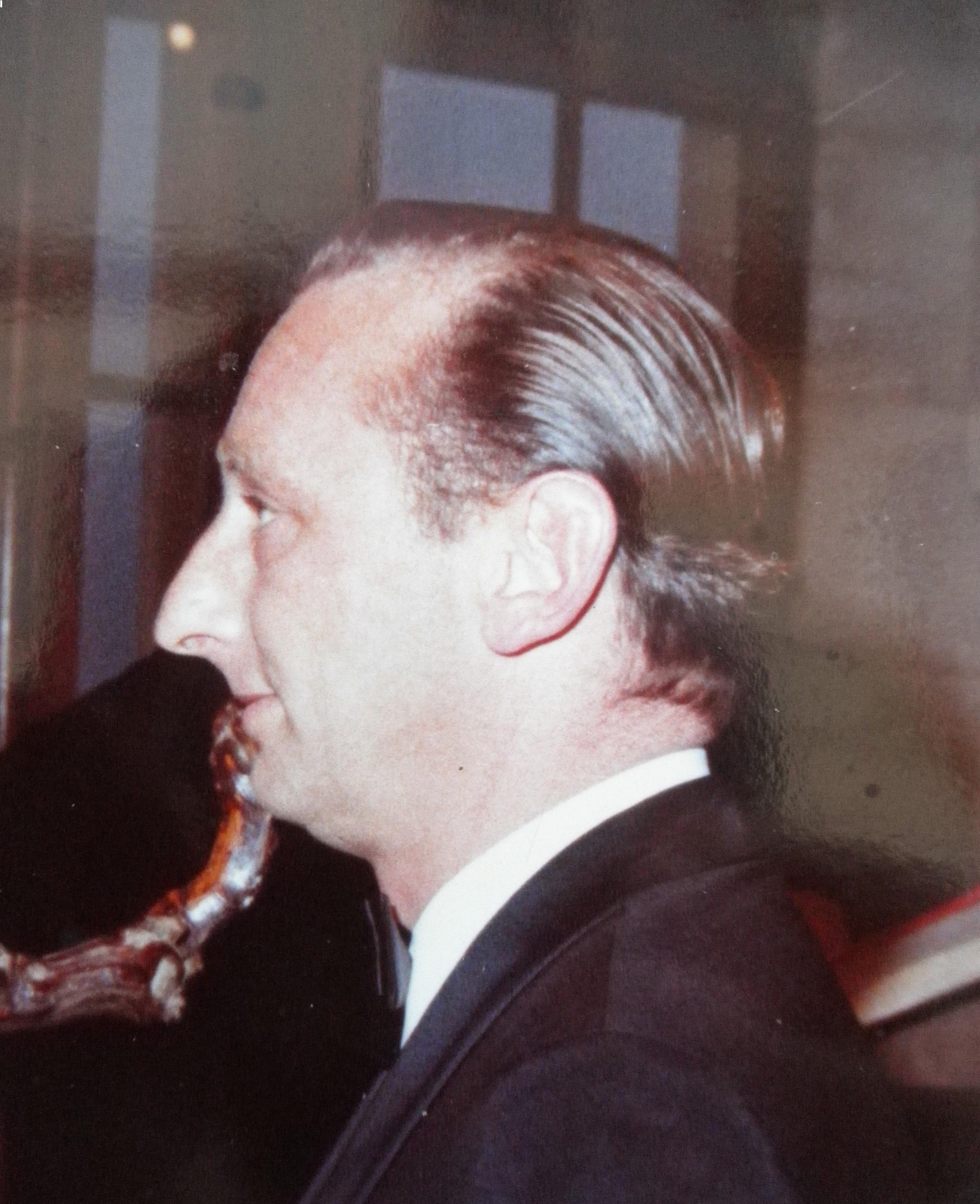 Denis Bonnasse, syndic délégué près la Bourse de marseille